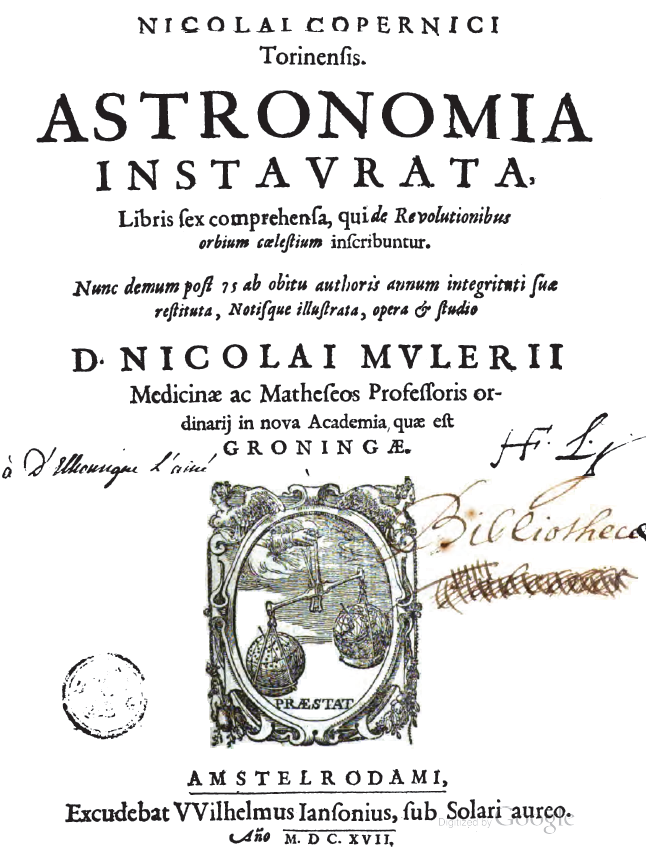 Cover of the Third edition of Nicolaus Copernicus' de revolutionibusby Nicolaus Mulerius. Published 1617 to commemorate the 75th anniversary of his death in 1543.